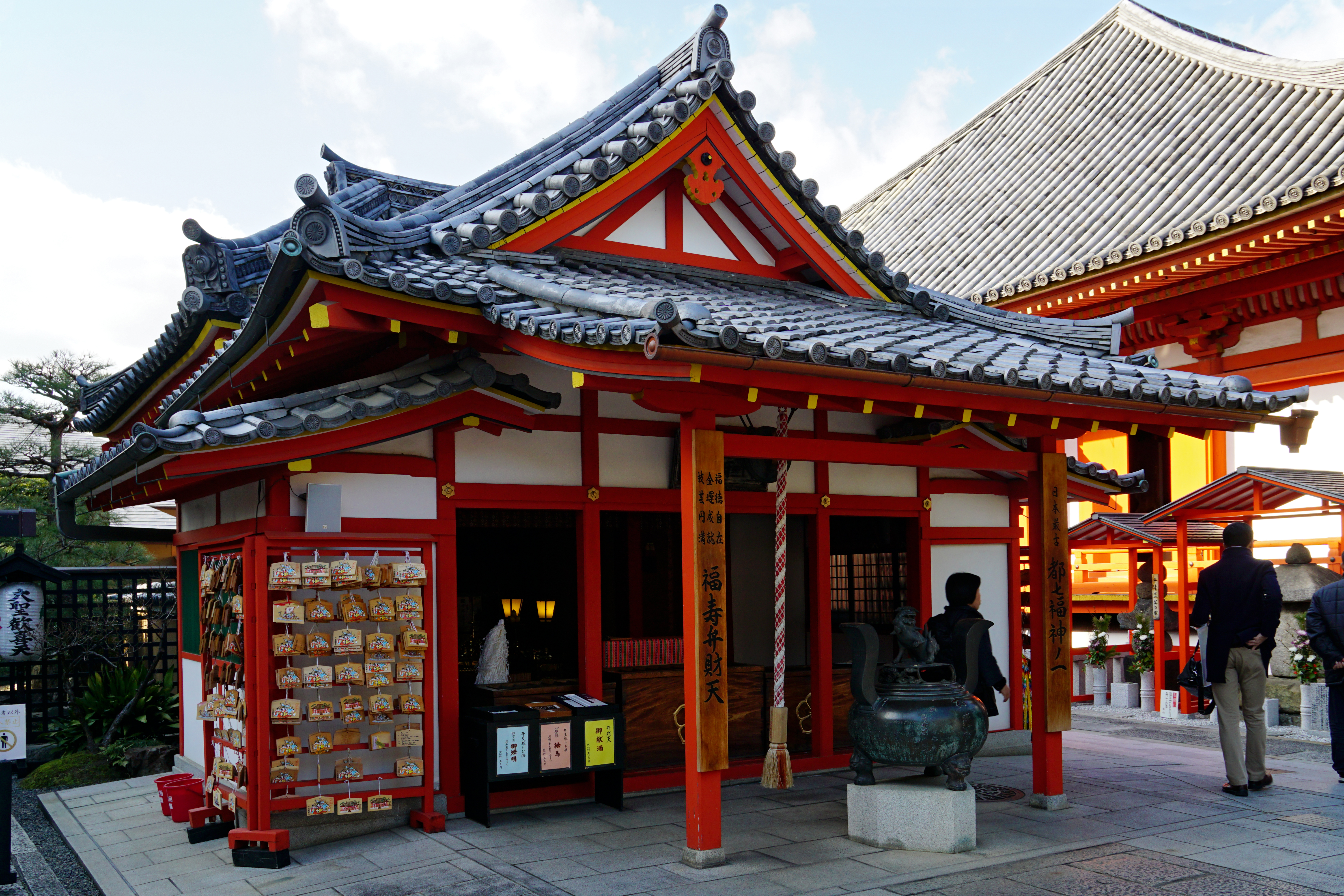 Rokuharamitsu-ji, Higashiyama-ku, Kyoto, Kyoto prefecture, Japan.